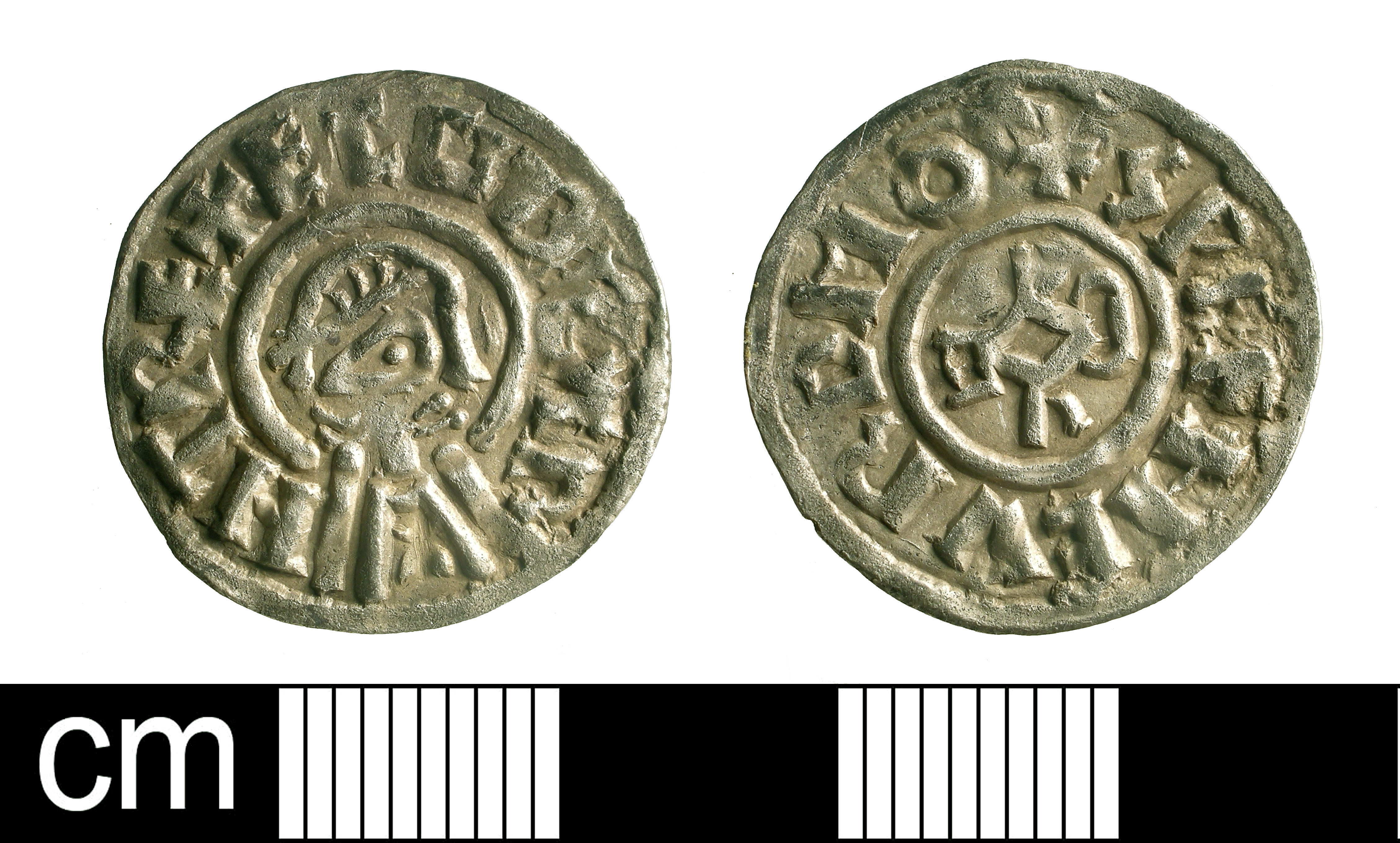 A silver penny of Ecgberht of Wessex (802-839); Portrait/Dorob C, North no. 573*, minted 828-839. Moneyer: SPEFHEVRD (Swefheard, Canterbury). Dimensions: 20.7mm diameter, 0.5mm thick. Weight: 1.3g.